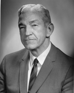 Wellborn Jack, Sr., candidate for re-election to Caddo Parish Police Jury, District 13. Published August 2, 1979, in the Shreveport Times. Coll.341. PC2768